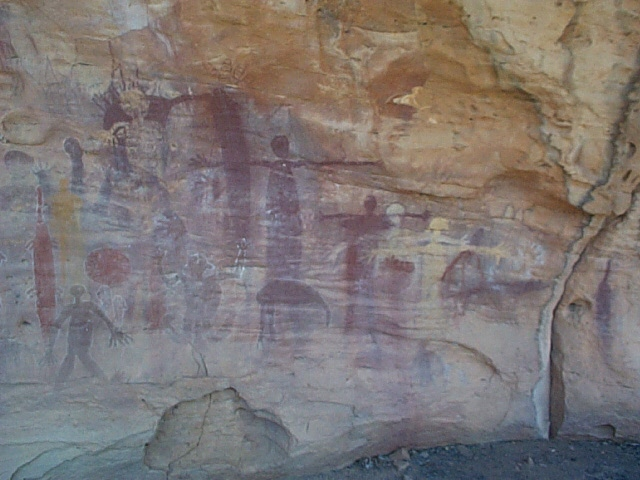 Example of a 'Quinkan' Rock Art, some of the world's most extensive and ancient rock painting galleries surround the tiny town of Laura, Queensland